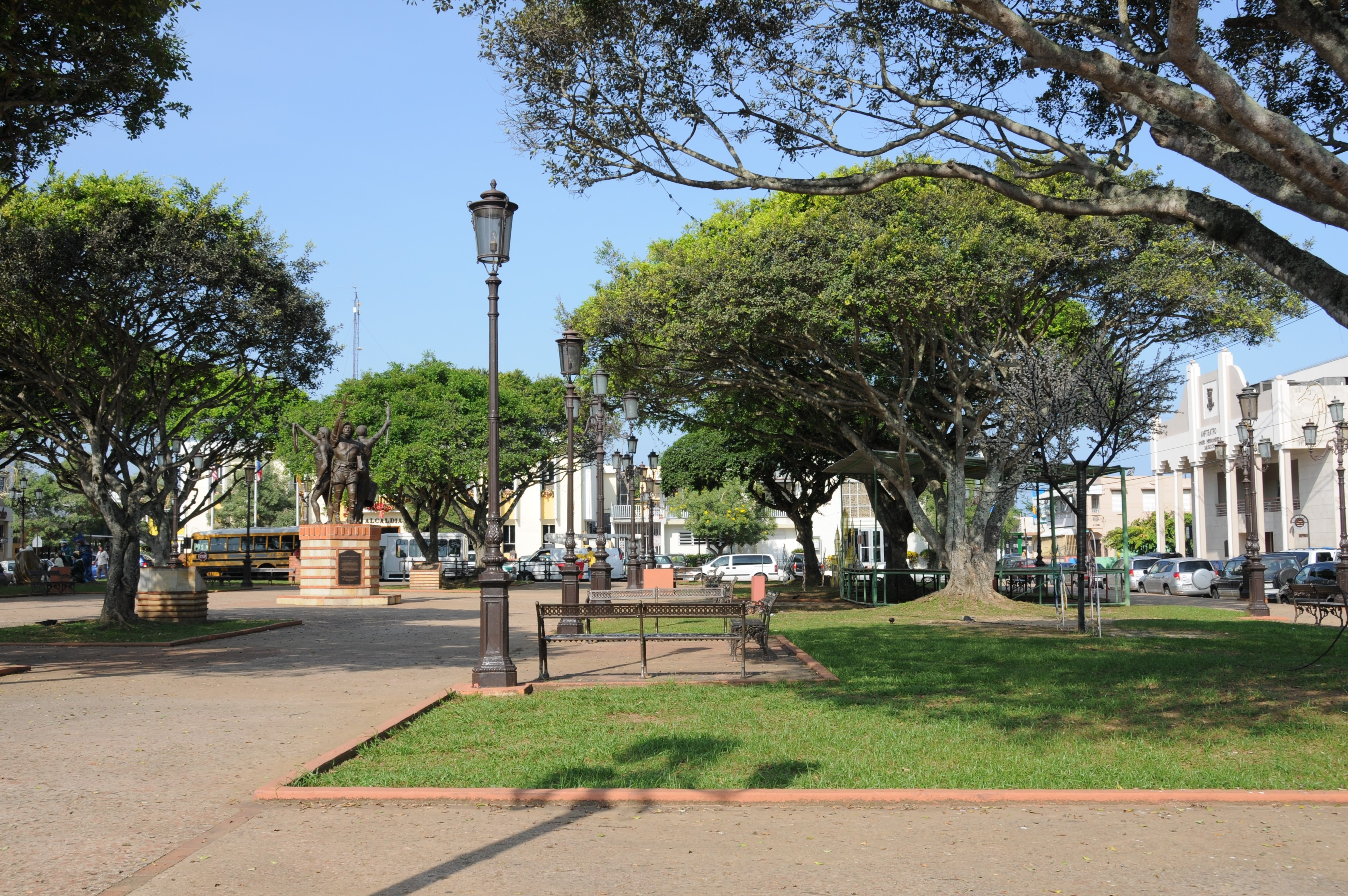 Central Square in the Dorado town in Puerto Rico.